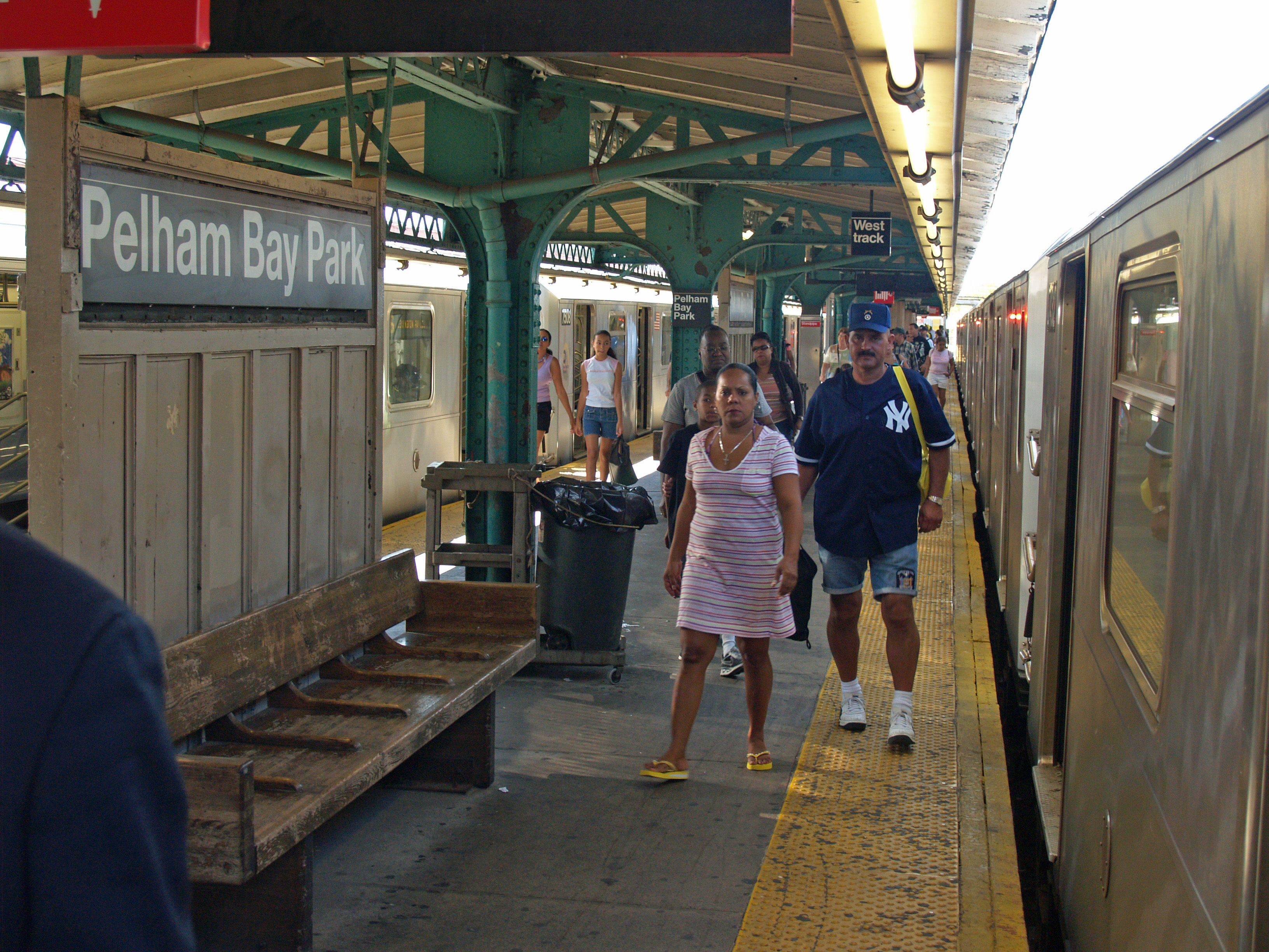 Pelham Bay Park (IRT Pelham Line) by David Shankbone